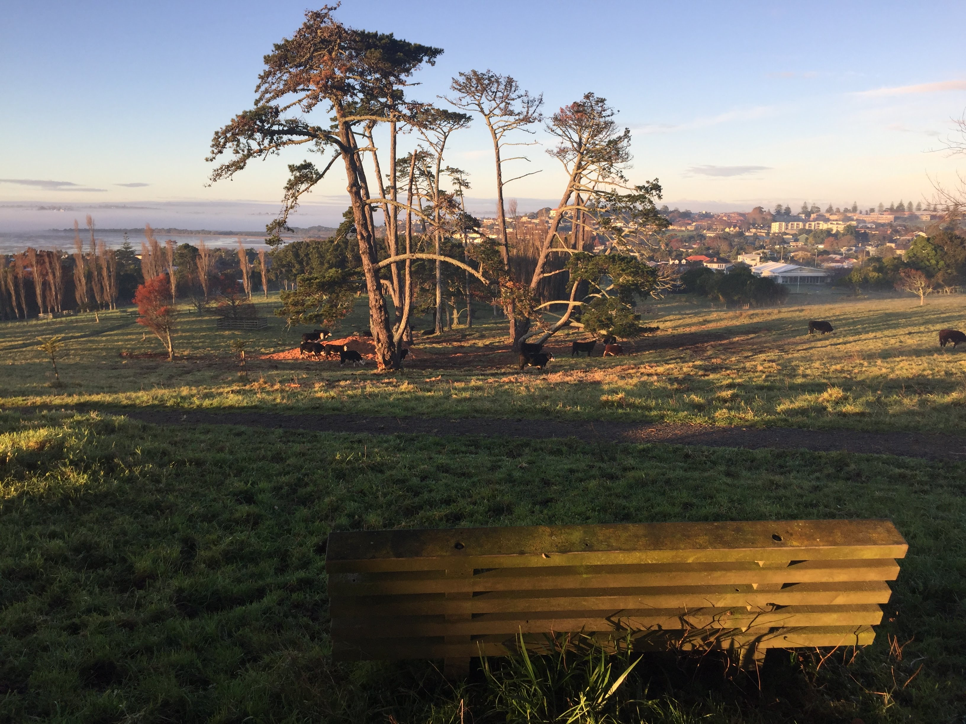 Early morning looking South from near the highest point of the park. Recently some of the pine trees had been removed hence the pile of mulch